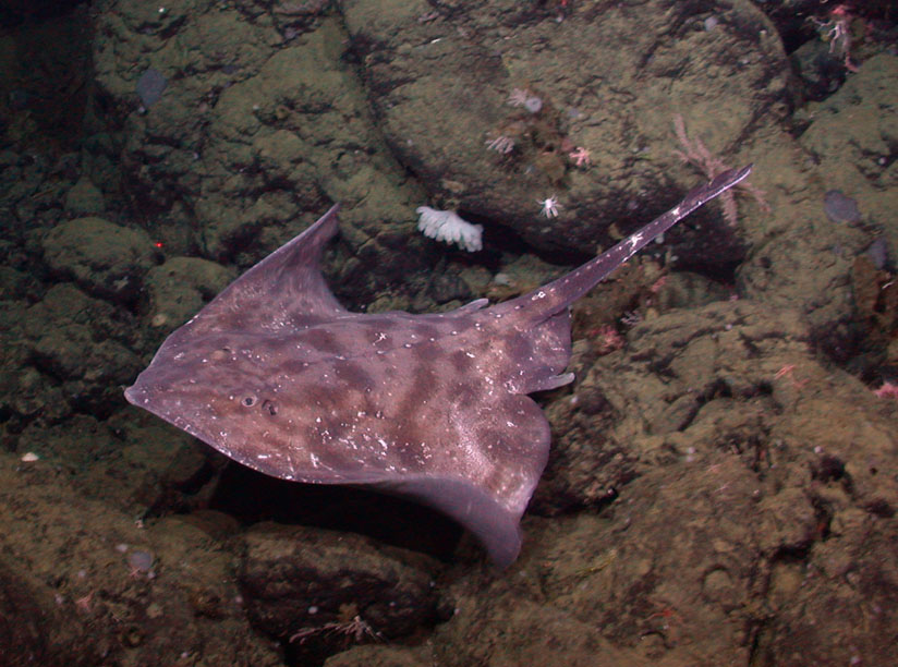 Broad skate (Amblyraja badia) on the Davidson Seamount at 1641 meters. Credit: NOAA/MBARI 2006